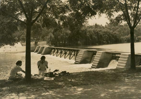 Picnic area at Yanco Weir near Leeton Dated: No date Digital ID: 12932_a012_a012X2450000077 Rights: We'd love to hear from you if you use our photos. Many other photos in our collection are available to view and browse on our website using Photo Investigator.